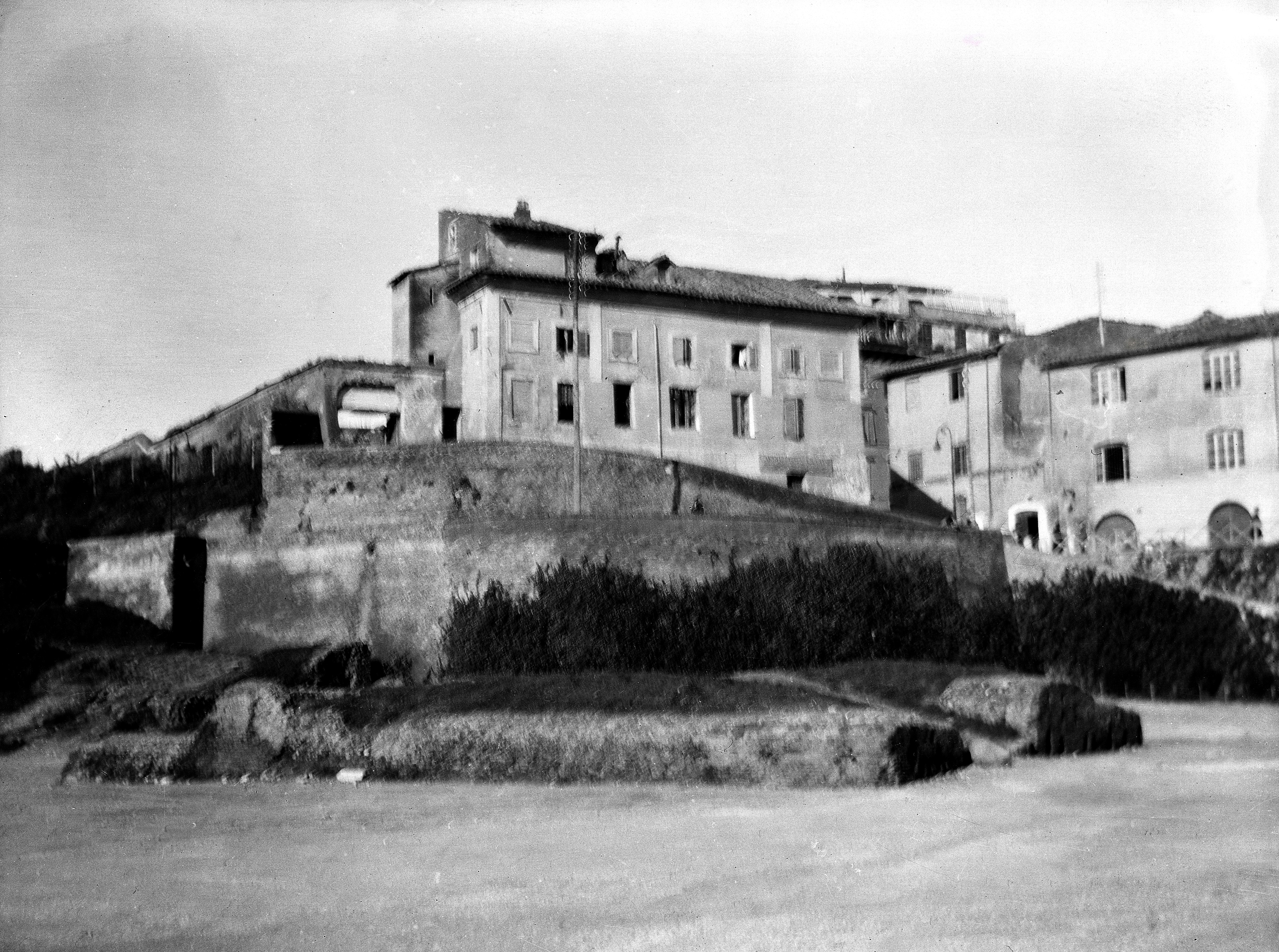 Base of the Colossus of Nero, Coliseum, Rome, Italy Wellcome Images